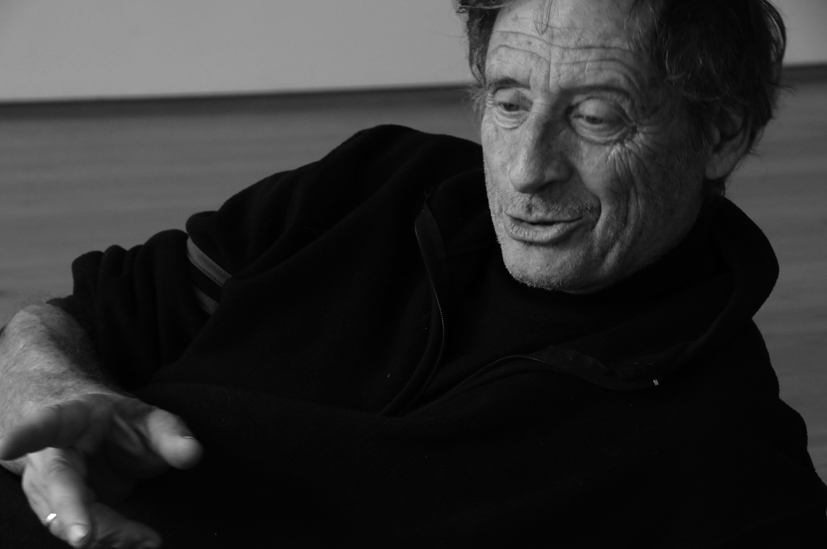 Portrait of the Swiss artist Juerg Hassler